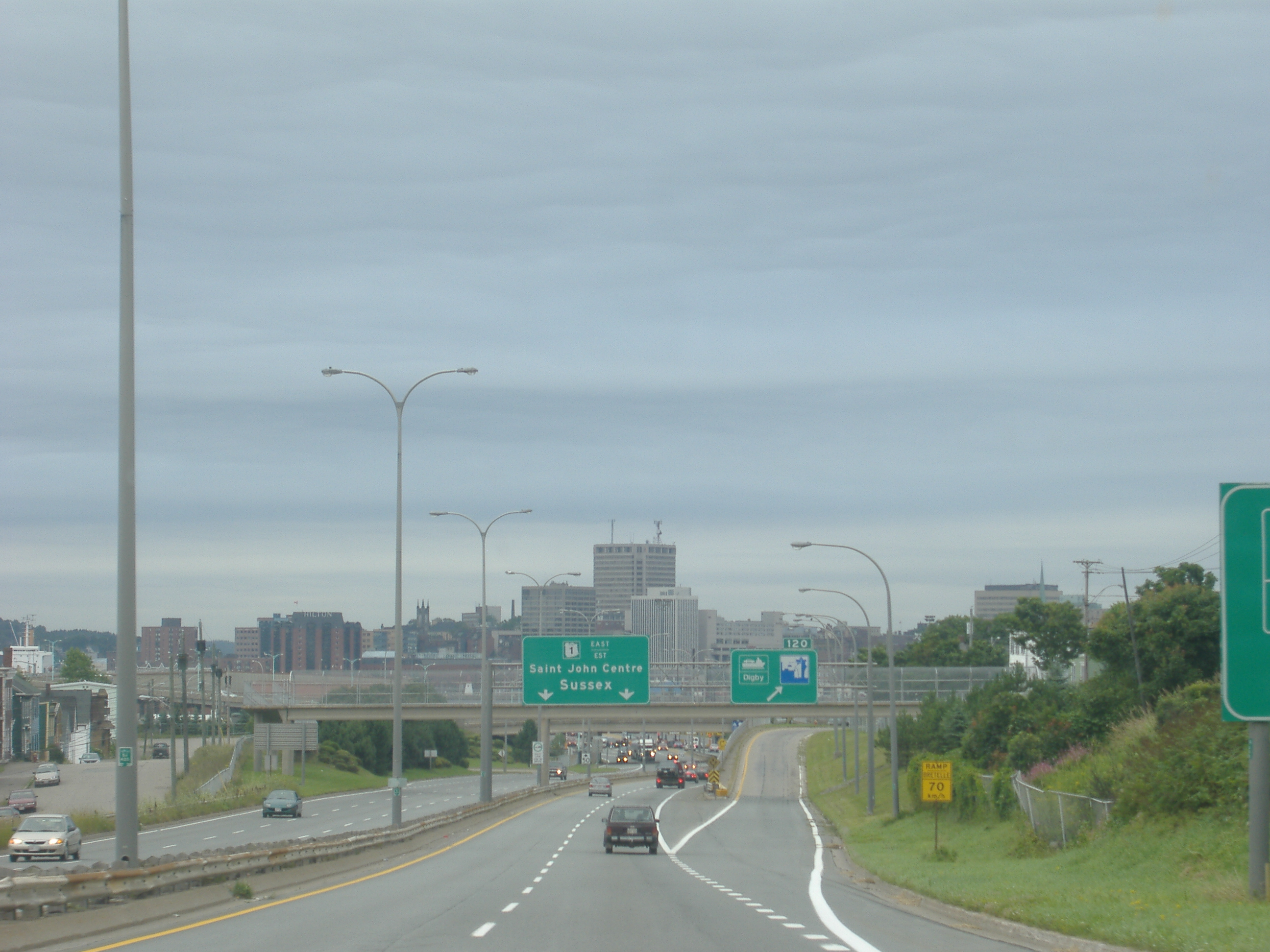 Subject to disclaimers. Subject to disclaimers.